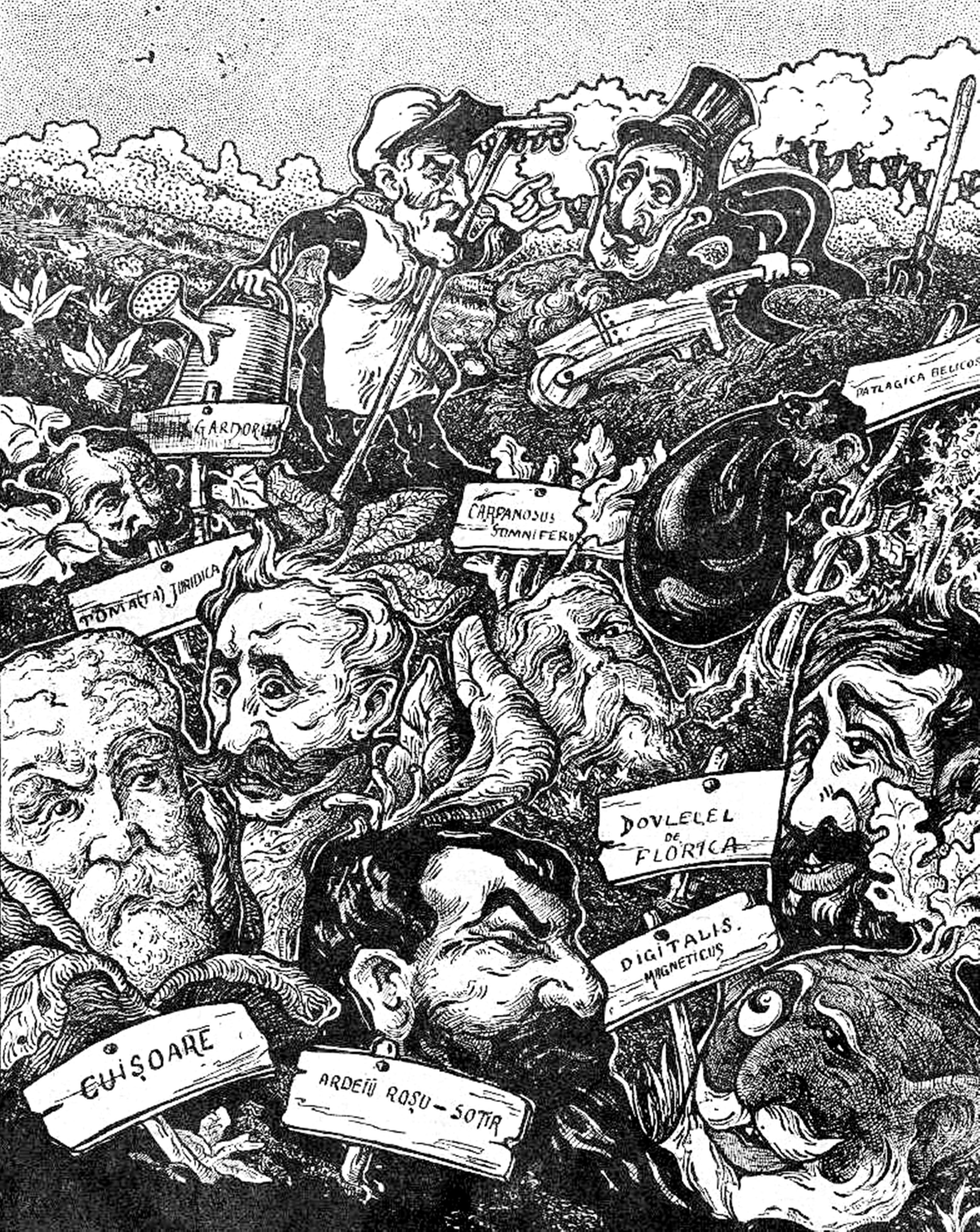 Zarzavat regal ("The Royal Vegetable Garden"), political cartoon in the Romanian magazine Furnica. A joke about Carol I, King of Romania, who made ample use of his royal prerogative to appoint ministers and topple cabinets. Carol is pictured here with an apron, a rake and a watering can, addressing a tailcoat-wearing Ioan Kalinderu (his real-life confidant and estate administrator). Speaking in his (supposedly thick) German accent, Carol tells his servant: Tomn Kalinderu, înveleşte bine la ei şi bagi di seamă ca opoziţia să nu rascoleşti gunoi că îngheaţă zarzavat şi pe urmă trebue să schimbi la el. Iarna foarte scump asta zarzavat politic! ("Mr. Kalideru, tuck zem tight up und make tschure zat ze opposition not go trough ze garbage zo zat ze fegetables vreeze over and zen you must be vinding niew ones. In vinter zese fegetables tschure are expenseef!") Pictured at their feet, in the guise of vegetables, are several of the leading National Liberal Party politicians of 1908, recognizable by their features and the humorous captions on their placards. Dimitrie Sturdza, the Prime Minister, is Digitalis magneticus (from his alias, Omul cu degetul magnetic, "Man with magnetic finger"), the beet-headed, one-eyed, figure at the bottom right. Ion I. C. Brătianu, the Internal Affairs Minister, is Dovlecel de Florica ("Florica Courgette" - after his estate in Argeş County). Vasile Morţun of Public Works is Ardeiŭ roşu – Sotir ("Red Pepper – Sotir", in reference to Morţun's former leadership of the socialist club Sotir). Finance Minister Emil Costinescu is Cuişoare ("Cloves", but more literally "Little Nails"). Toma Stelian of the Justice Ministry is Toma(ta) Juridica, i.e. "Judicial Toma(to)". Alexandru Averescu, the Minister of War, is Patlagica belicosa ("Bellicose Yellow Pear Tomato", but also "Bellicose Schnoz"). Anton Carp of Agriculture is Carpanosus somniferus. Alexandru Djuvara of Industry and Commerce is a radish, Radix Gardorita (?).